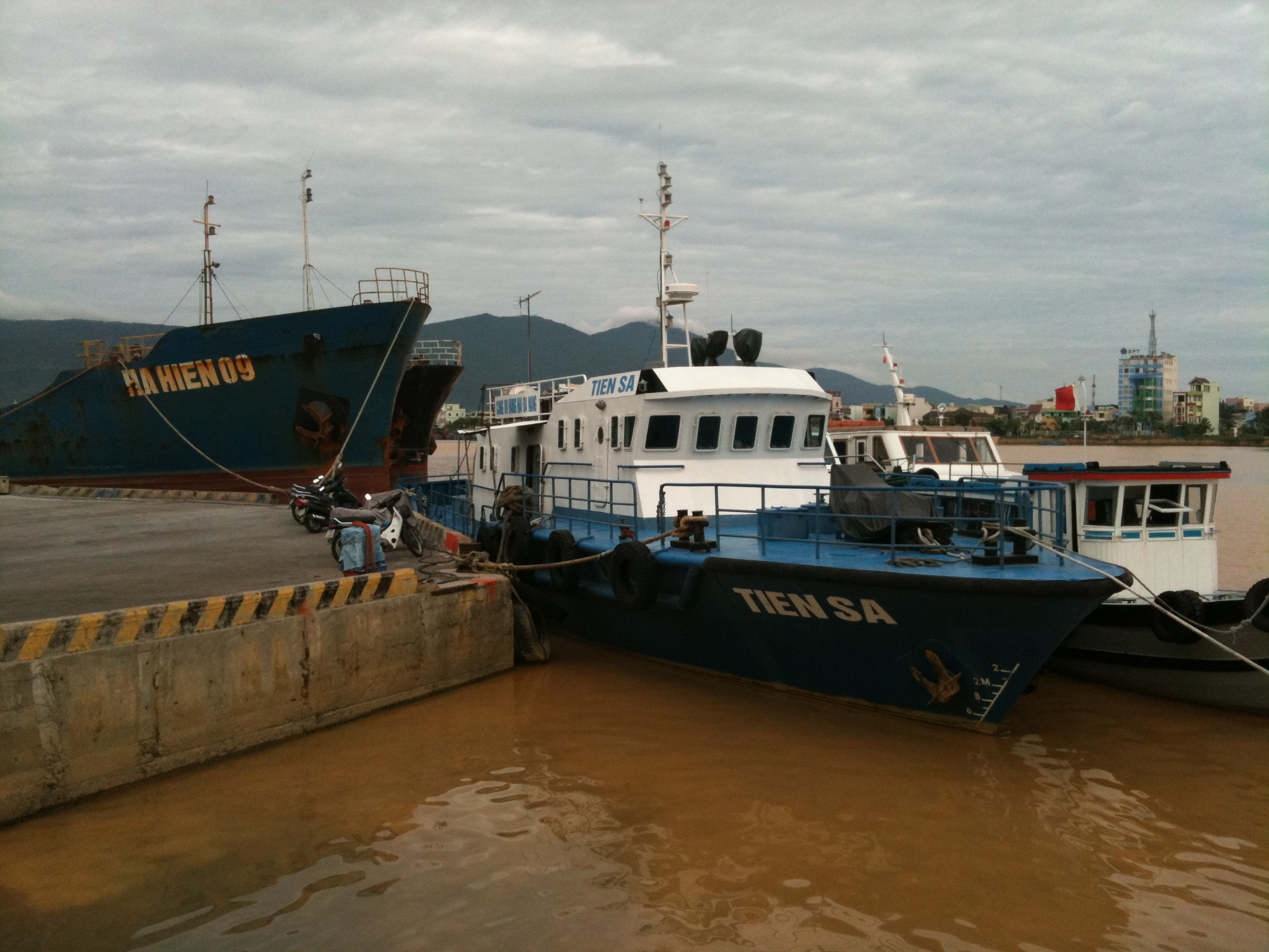 Boats tethered at the edge of Song Han Terminal, Da Nang Port.